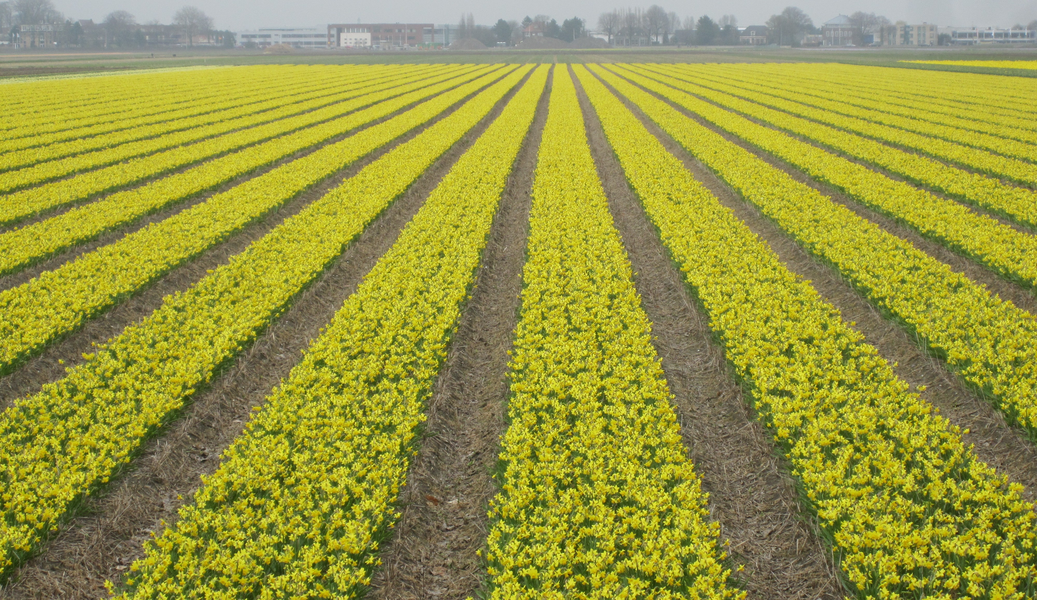 Narcissus field near Keukenhof, Netherlands.